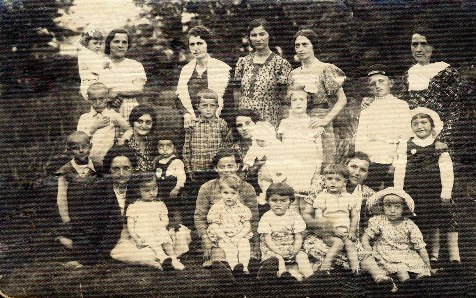 Rajna Gaschevska mit zwei ihrer Kindern